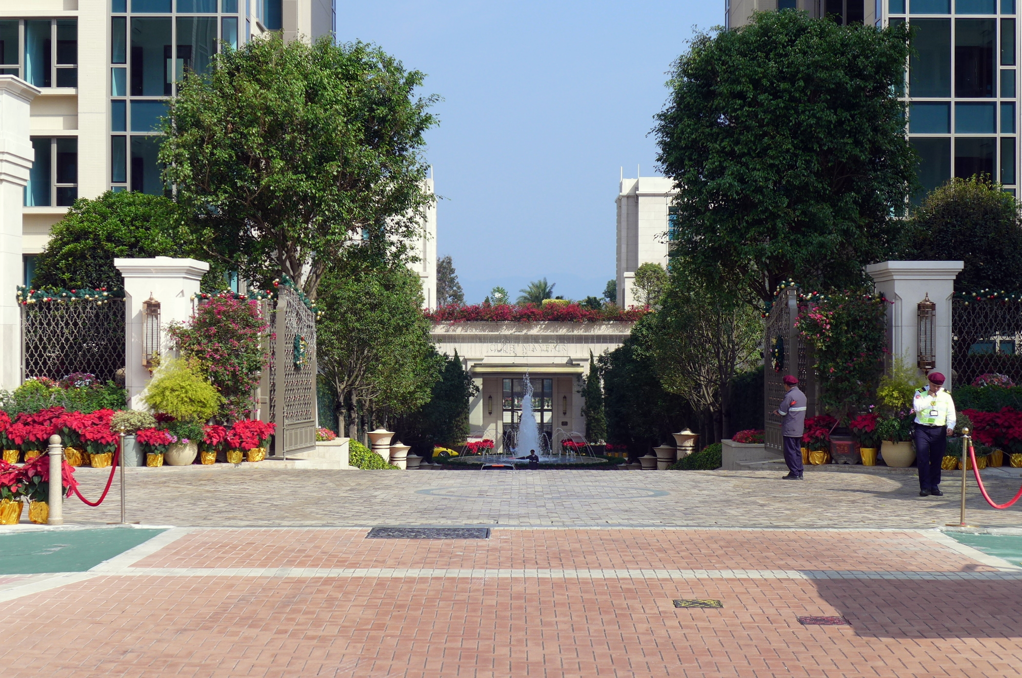 Mayfair By The Sea I&II Entrance